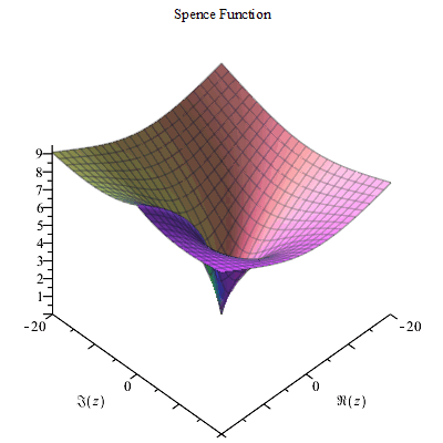 Spence Function of Dilog function complex